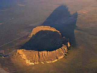 Aerial photo of Fort Rock, a tuff ring in Oregon.